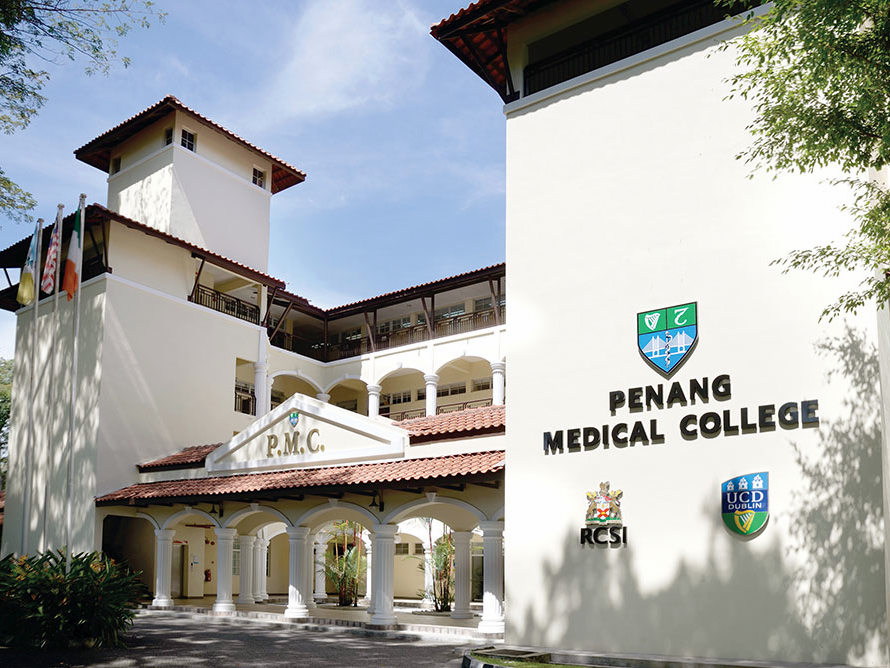 The Royal College of Surgeons in Ireland & University College Dublin Malaysia Campus, formerly known as the Penang Medical College, at Sepoy Lines Road in George Town, Penang.